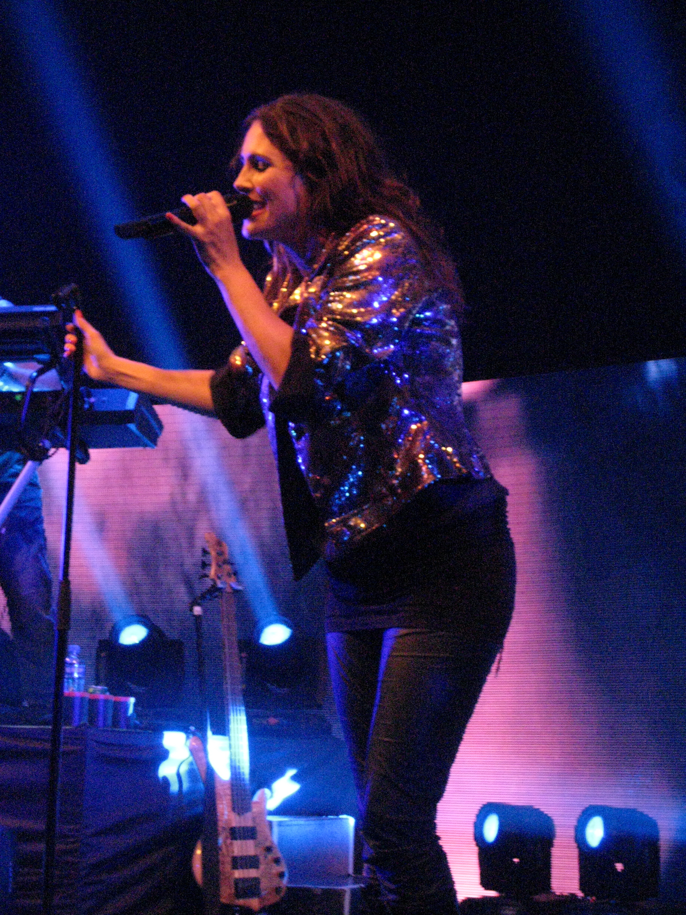 Within Temptation performing at the Paradiso, Amsterdam, 2011. LEad vocalist Sharon den Adel wears a dance club jacket during the performance of "Sinéad".